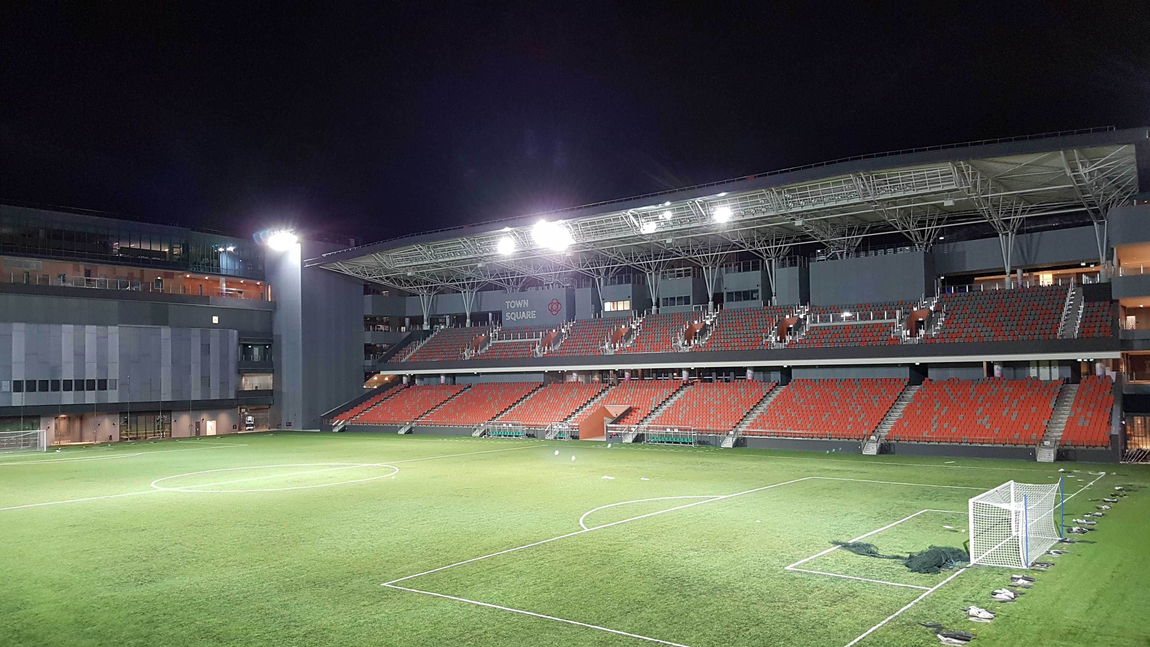 Tampines Rovers current home ground at Our Tampines Hub, which was completed in July 2017